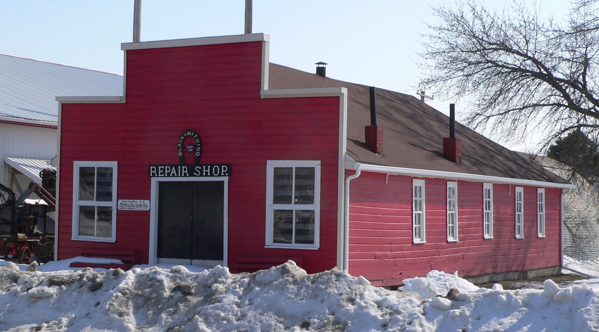 Cook Blacksmith Shop in Ponca, Nebraska; seen from the northwest. The building was constructed in 1901. It is listed in the National Register of Historic Places.